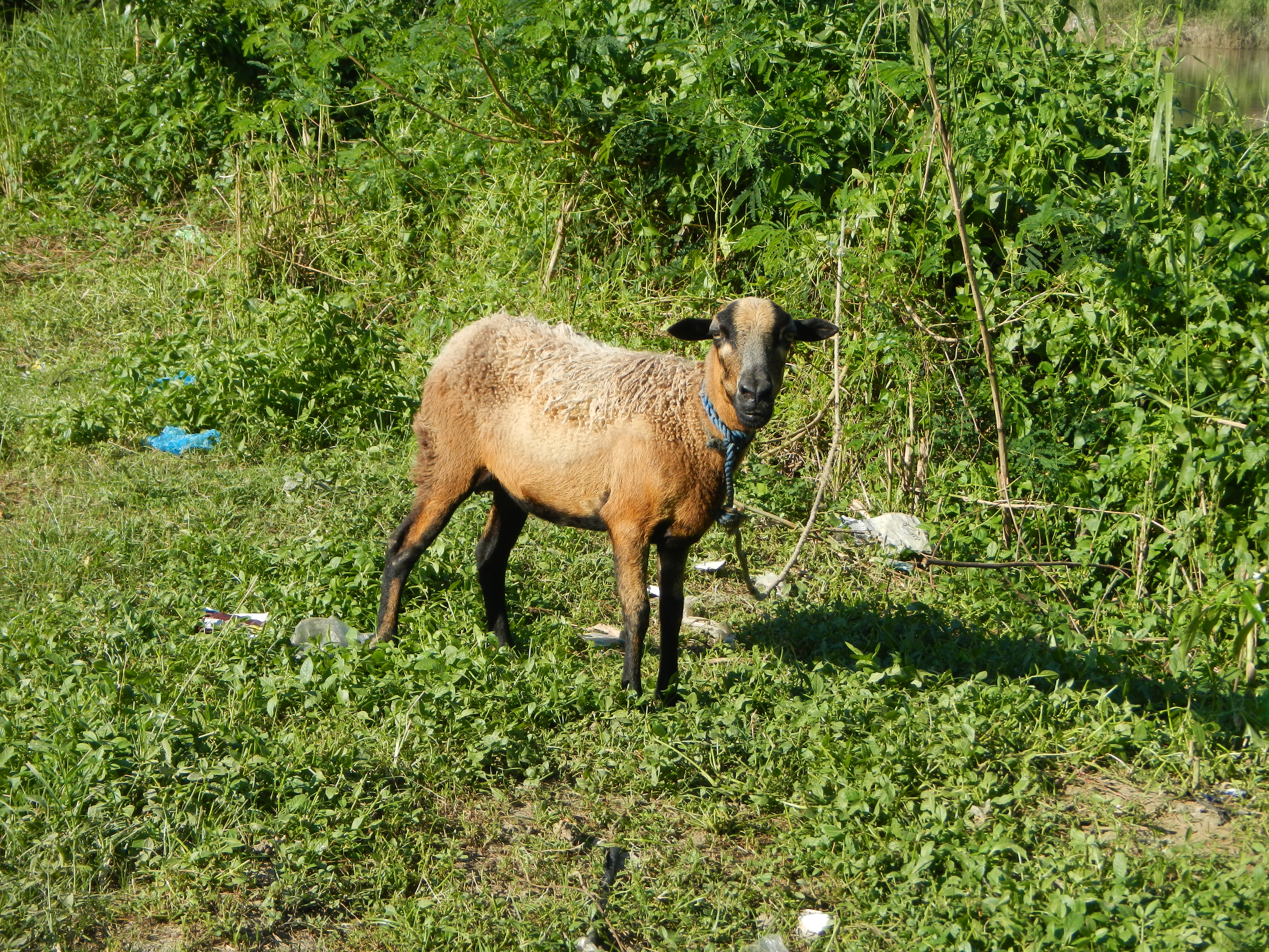 Sheep–goat hybrid, Landscapes, scenery of Pampanga River surrounding on one side, along Barrio Road of Barangay Santa Rita, San Luis, Pampanga, gateway to the Welcome arch of neighbor next Town's 1st Barangay of San Simon, Pampanga Barangay San Pedro, San Simon, Pampanga - with plantations of Tiger Grass locally called "Tambo".